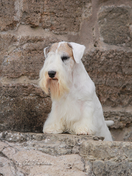 Sealyham Terrier World Winner '14 '15 '16, Crufts Winner '15, European Winner '15 '16, European Junior Winner '13, Int Ch, RUS Ch, PL Ch, LT Ch, LV Ch, FIN Ch, S Ch, N Ch, H Ch, NL Ch Forlegd Yuppie Moto Moto